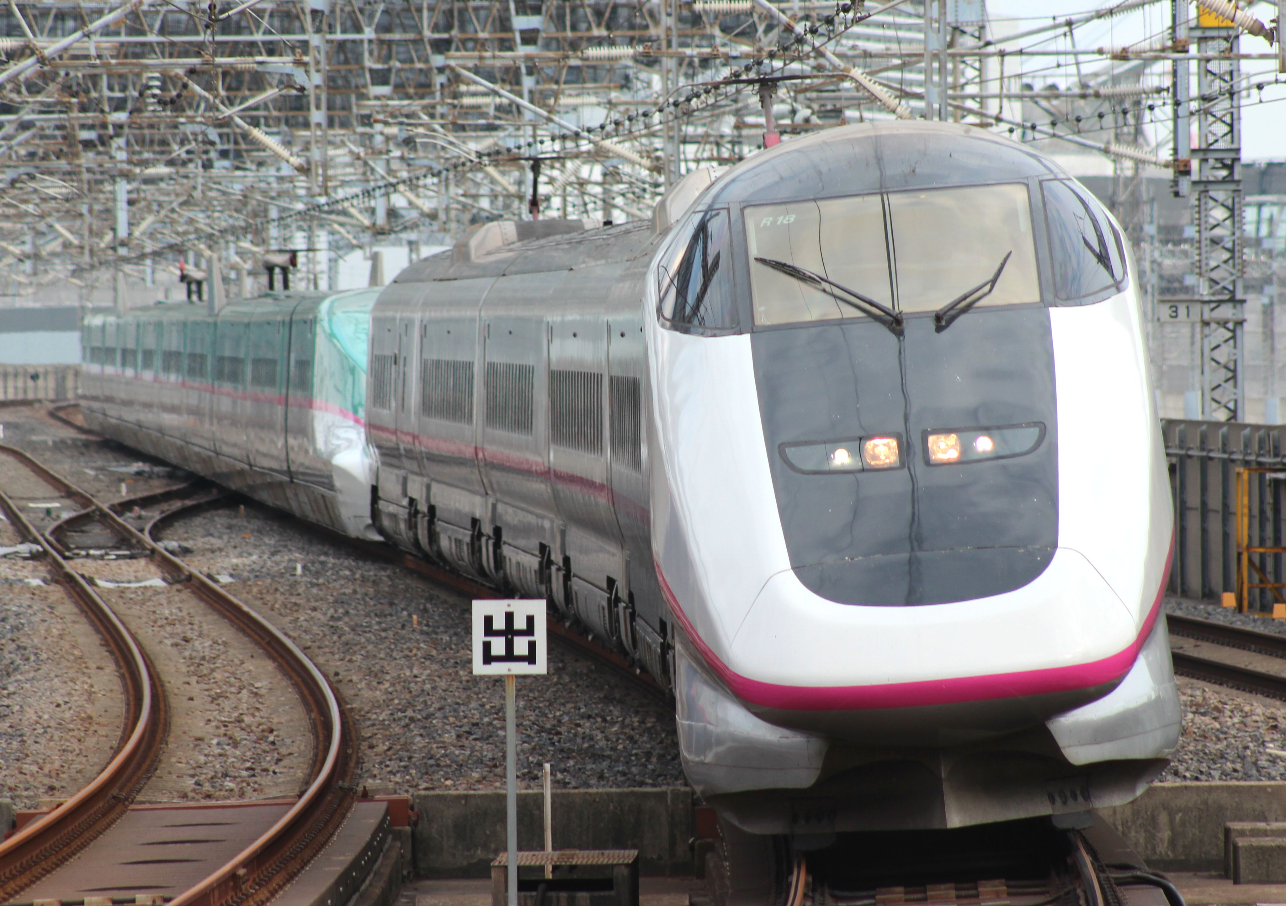 JR East E3 series shinkansen set R18 coupled to an E5 series set approaching Omiya Station